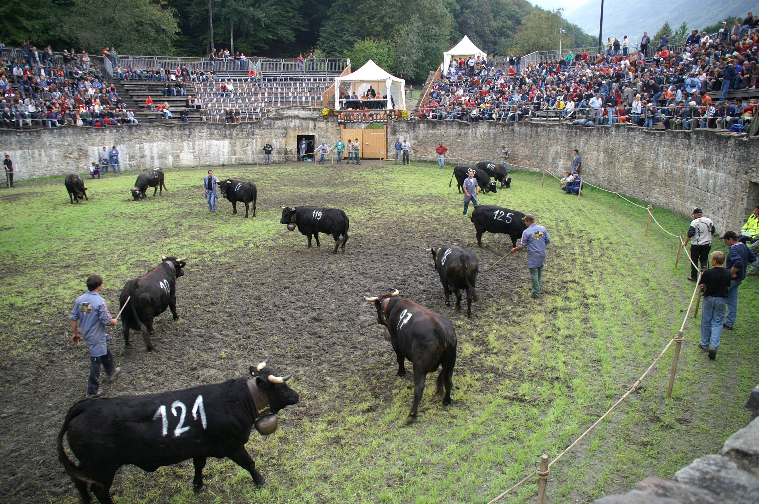 Picture taken at the « Foire du Valais » - Martigny / Switzerland